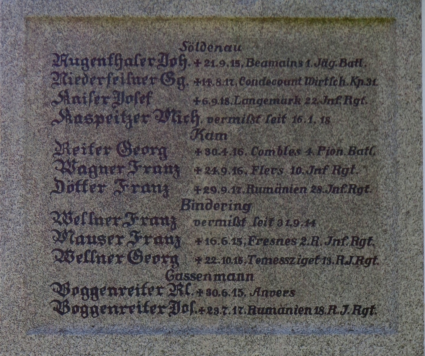 War Memorial in Söldenau (Ortenburg, Bavaria, Germany) detail